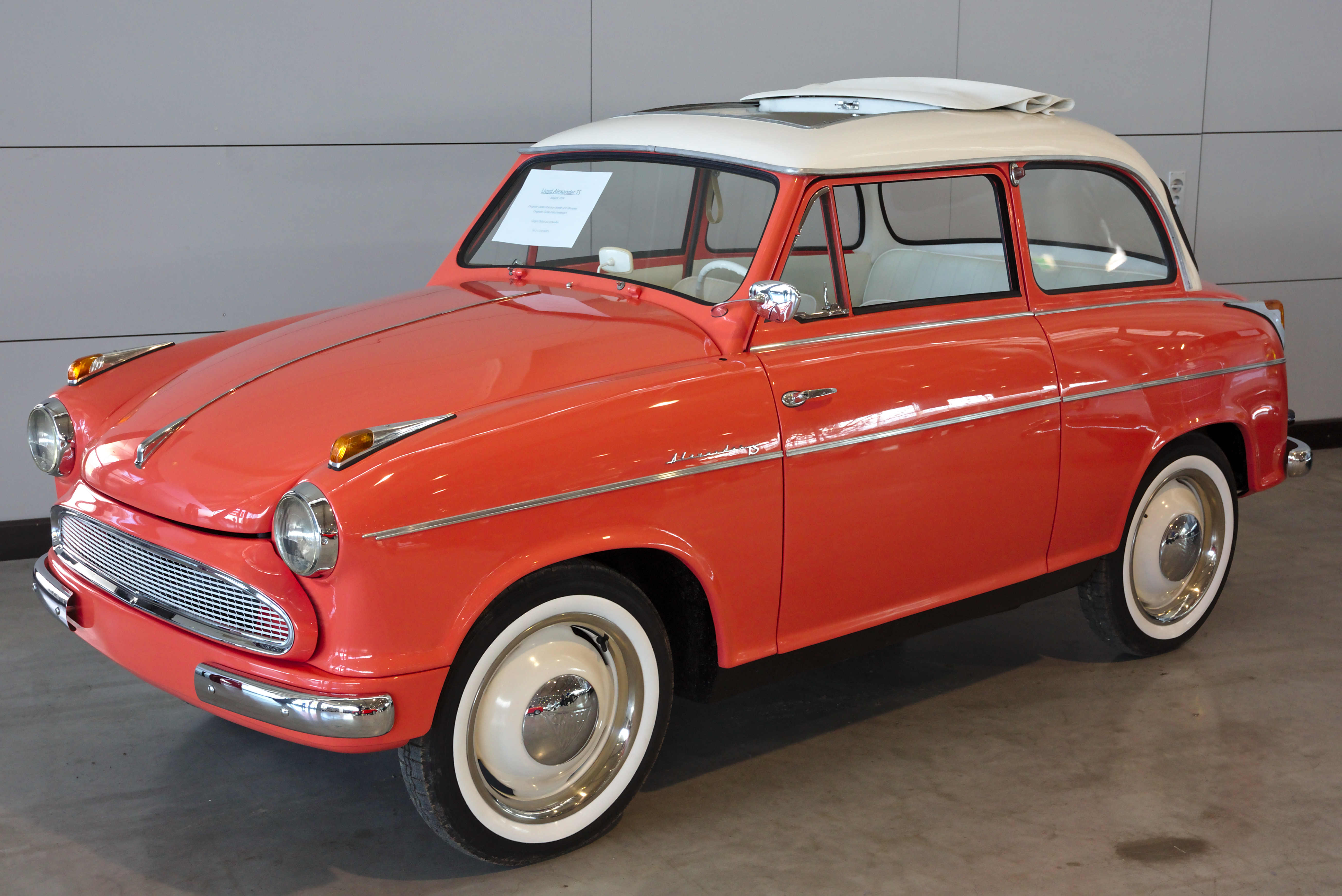 Lloyd Alexander TS at Retro Classics 2019